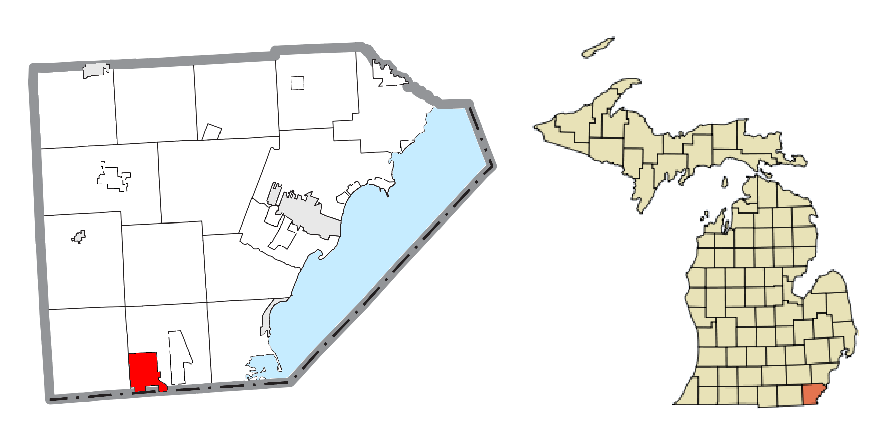 Lambertville, MI